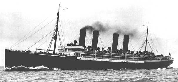 Photo of the SS Kaiser Wilhelm der Grosse at sea